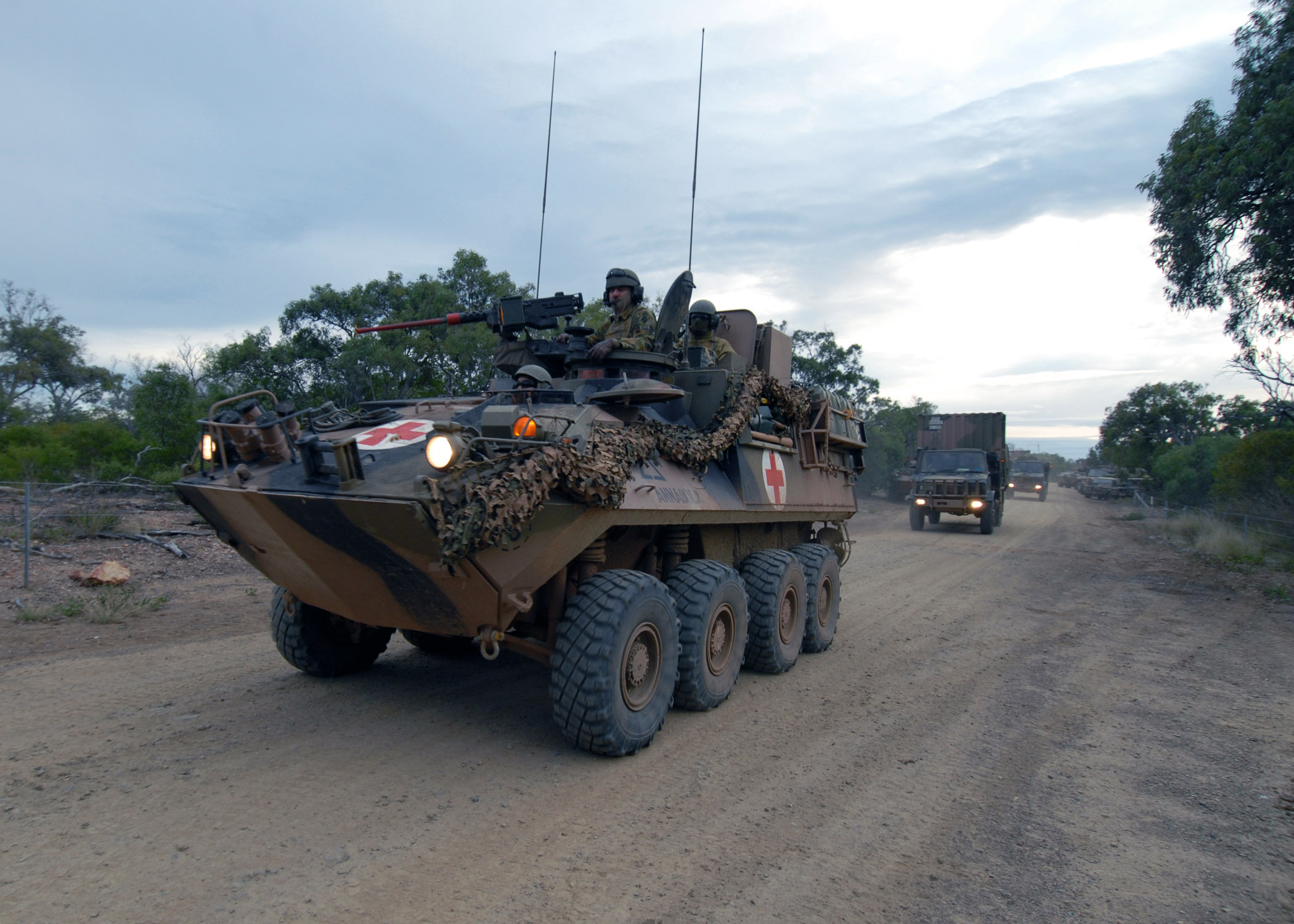 070620-N-4965F-005 SHOALWATER BAY, Australia (June 20, 2007) - Soldiers assigned to the Australian Defense Force, 2nd/14th Light Horse Regiment, maneuver from Sabina Point at the Shoalwater Bay Training Area, following an amphibious beach landing exercise during exercise Talisman Saber 2007 (TS07). TS07 is a biennial field training exercise held between U.S. and Australian forces to demonstrates the U.S. and Australian commitment to our military alliance and to regional security while maintaining a high level of interoperability. U.S. Navy photo by Mass Communication Specialist 1st Class James E. Foehl (RELEASED)